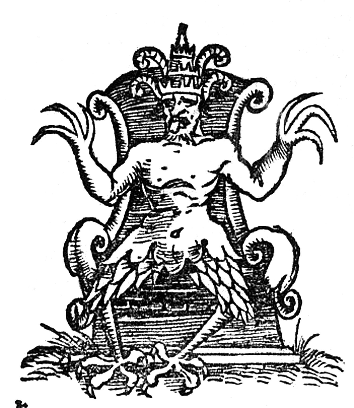 God Deumo (Demus or Deumus) of Calicut from "Cosmographia" (1544) by Sebastian Münster. Deumo is also described by Ludovico Verthema in 1503. Sailors first came to face with the idol of Deumo at Calicut on the Malabar Coast and they concluded it to be the god of Calicut. It is described that the ruler of Calicut (Zamorin) has a image of Deumo in his temple. Sebastian Münster (1488-1552) was a German cartographer, cosmographer, and Hebrew scholar whose Cosmographia (1544; "Cosmography") was the earliest German description of the world and a major work in the revival of geographic thought in 16th-century Europe. Aside from the well-known maps present in the Cosmographia, the text is thickly sprinkled with vigorous views: portraits of kings and princes, costumes and occupations, habits and customs, flora and fauna, monsters, wonders, and horrors.